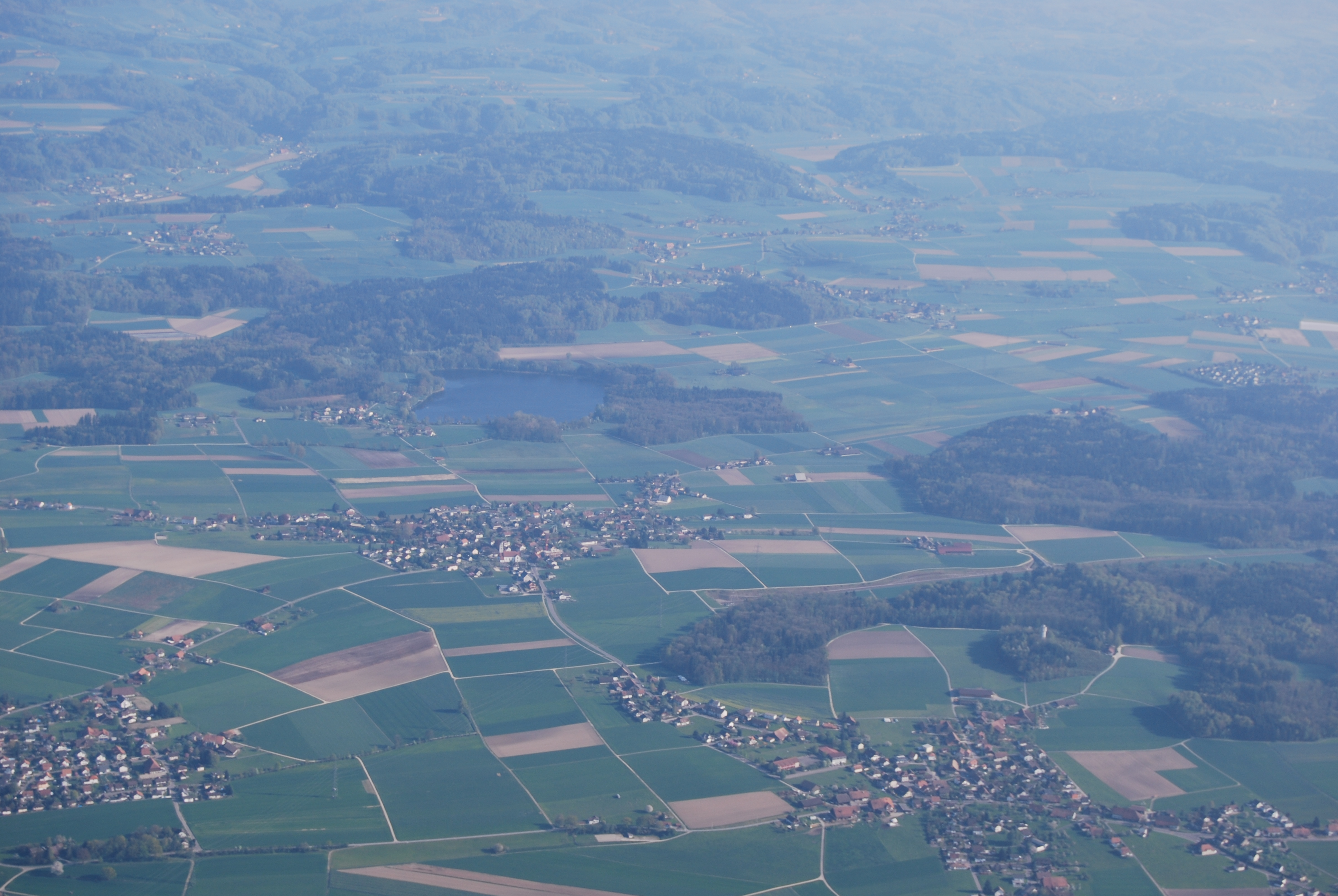 Lake Burgaeschi, Bolken, Aeschi, and Etziken, canton of Solothurn, Switzerland